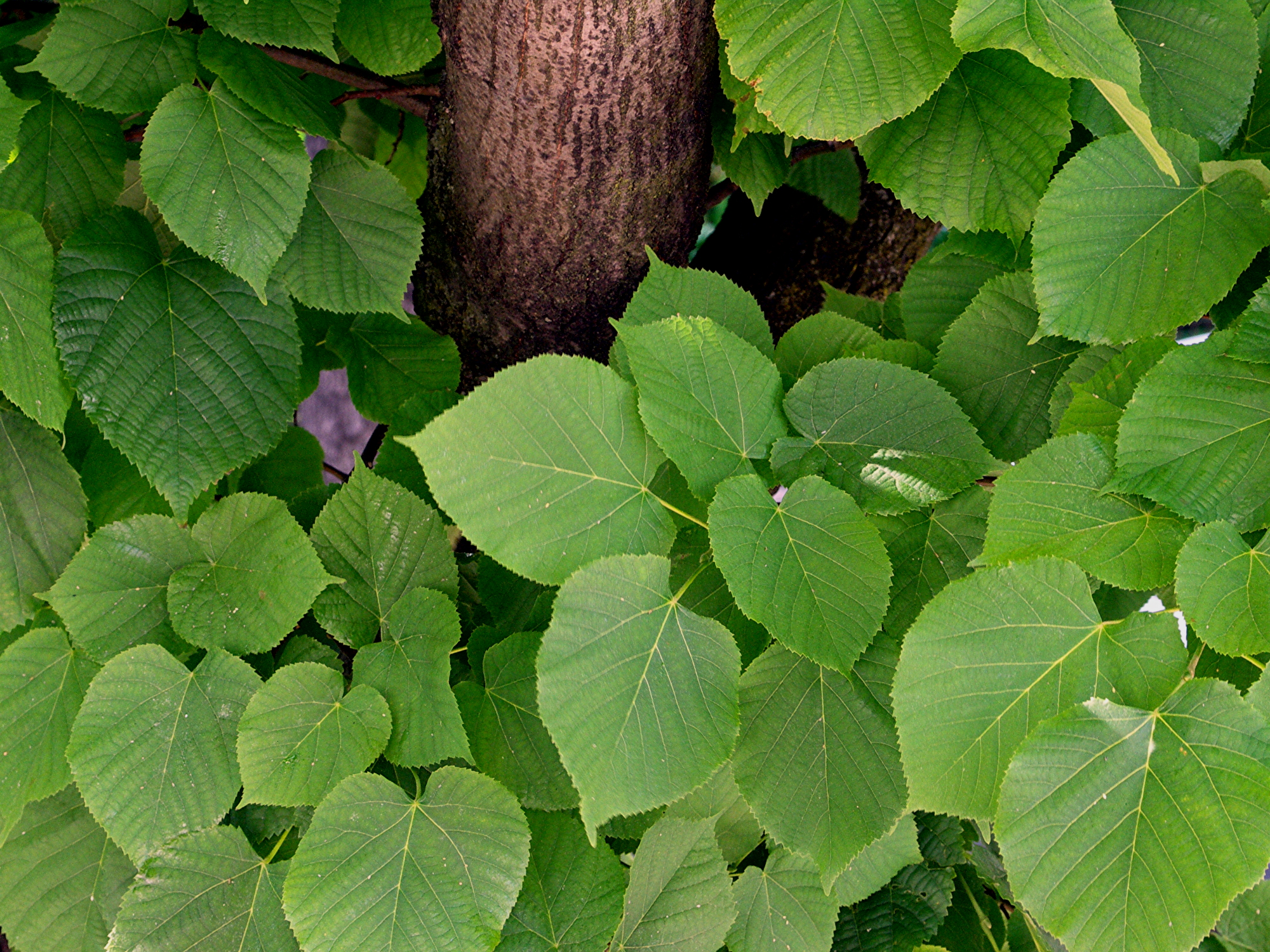 Leaves of a commom lime (Tilia × europaea)